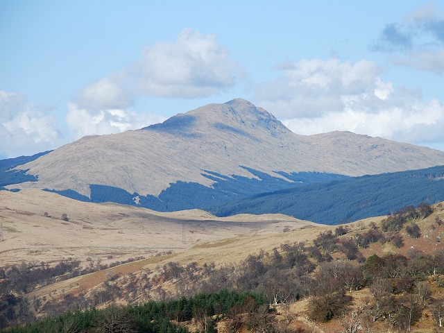 Beinn Bhuidhe A rare, open, view of this mountain, as seen from the slopes of Sron Reithe above Inveraray.